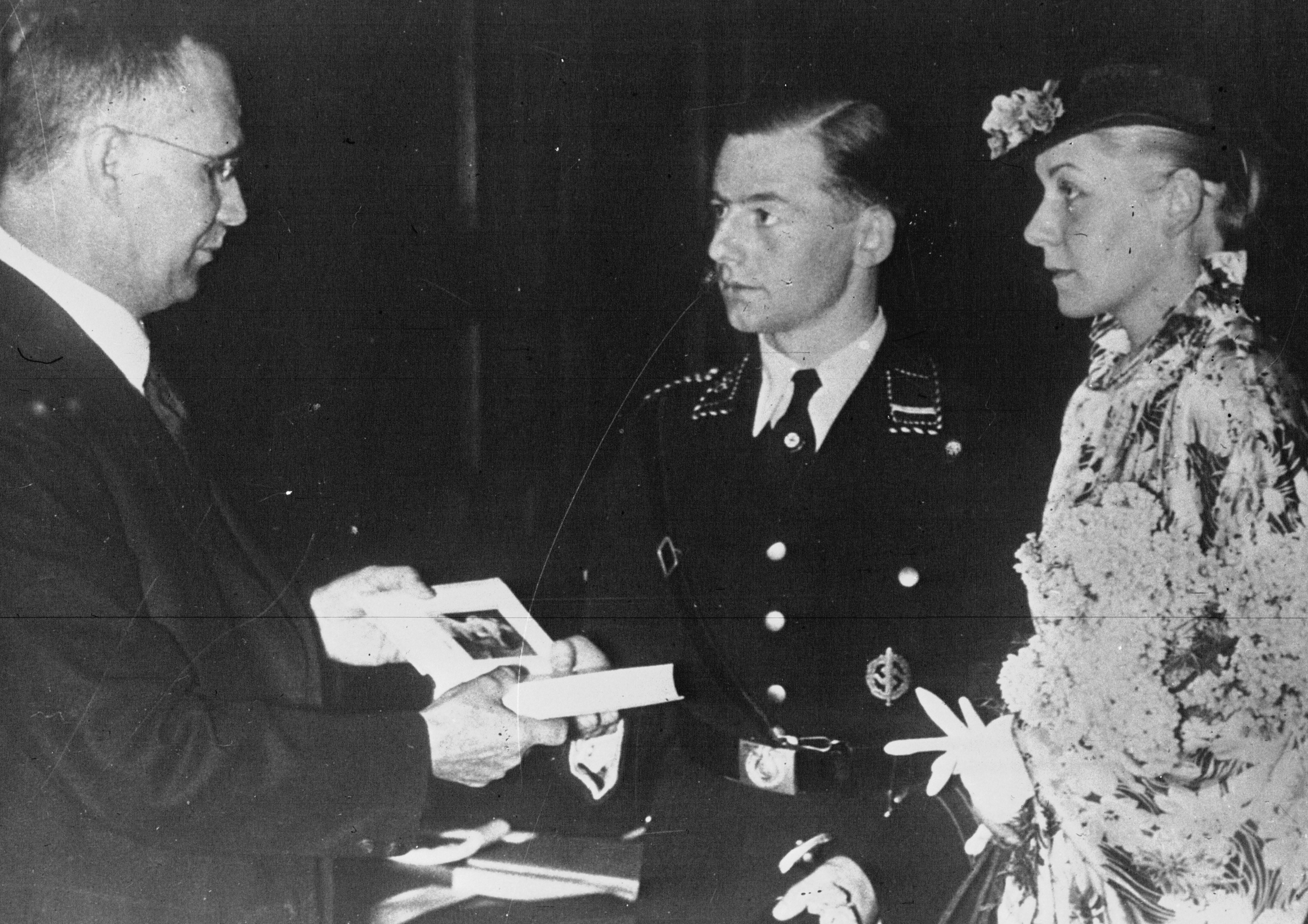 A wedding ceremony in Germany in 1936. Translation of caption: "Chancellor Hitler has decided that a copy of his book Mein Kampf will be given to every couple on their wedding day."